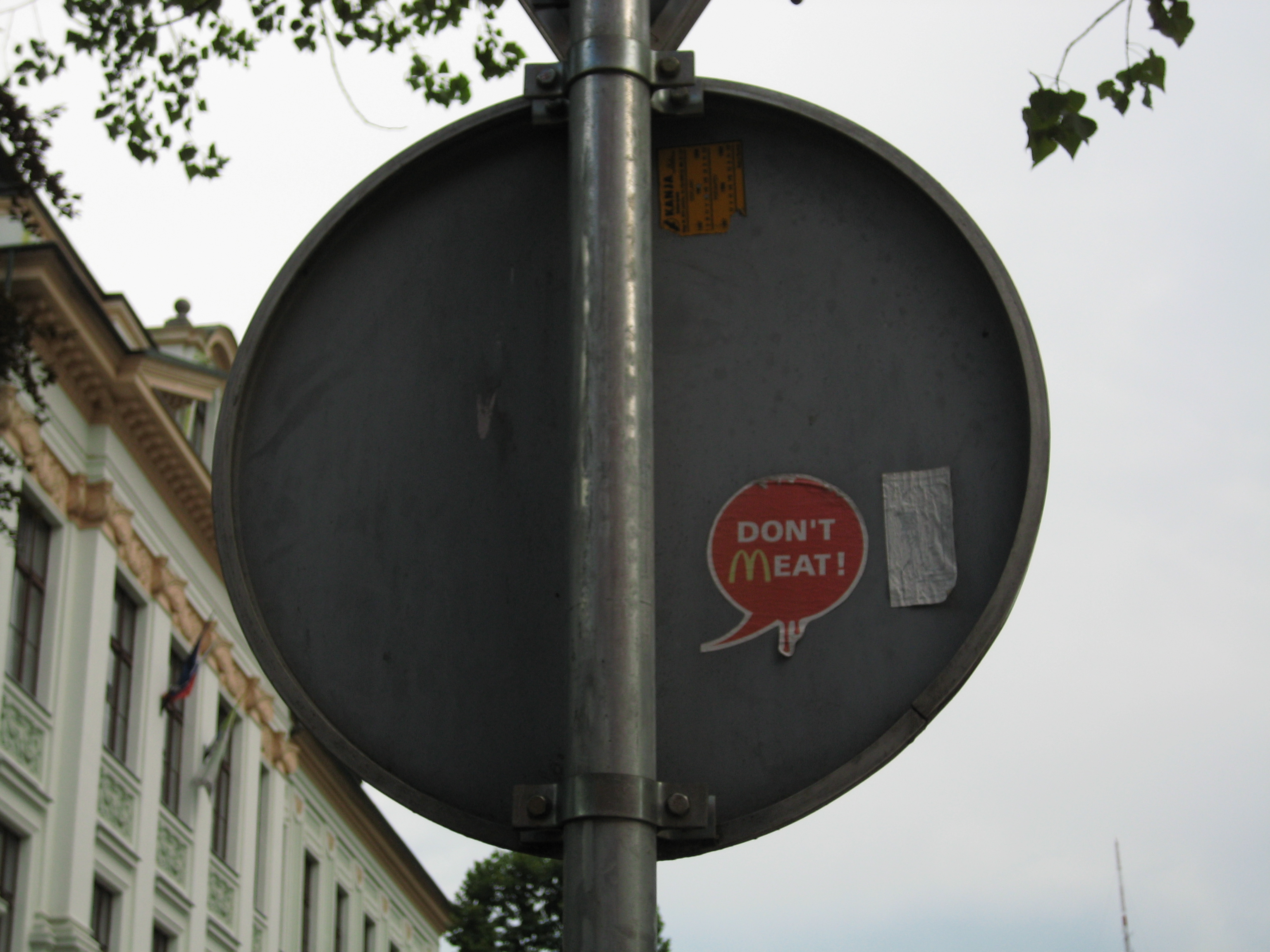 Don't Meat!